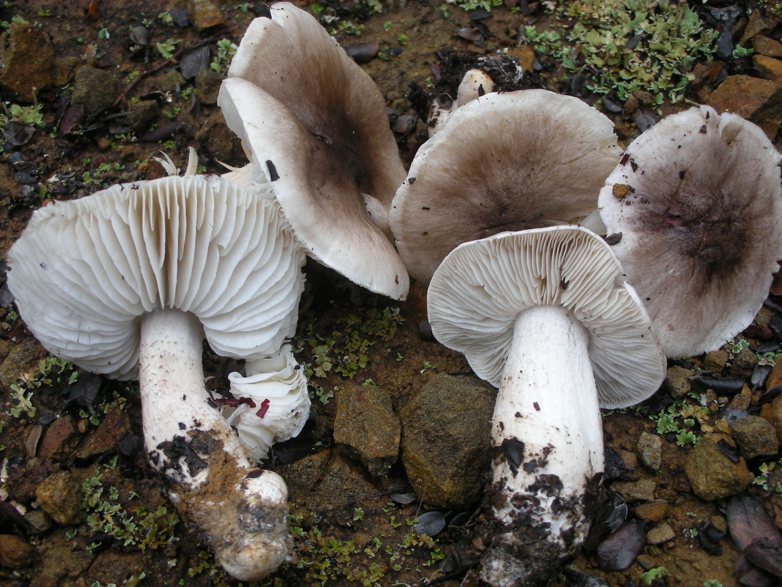 Fruit bodies of the agaric fungus Tricholoma griseoviolaceum Shanks. Photographed in Bolinas Ridge, Marin Co., California, USA.